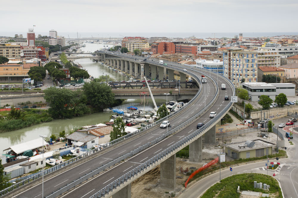 Panorama di Pescara dalle Torri Camuzzi; al centro il viadotto dell'Asse Attrezzato (parte della SS 16 dir/C)